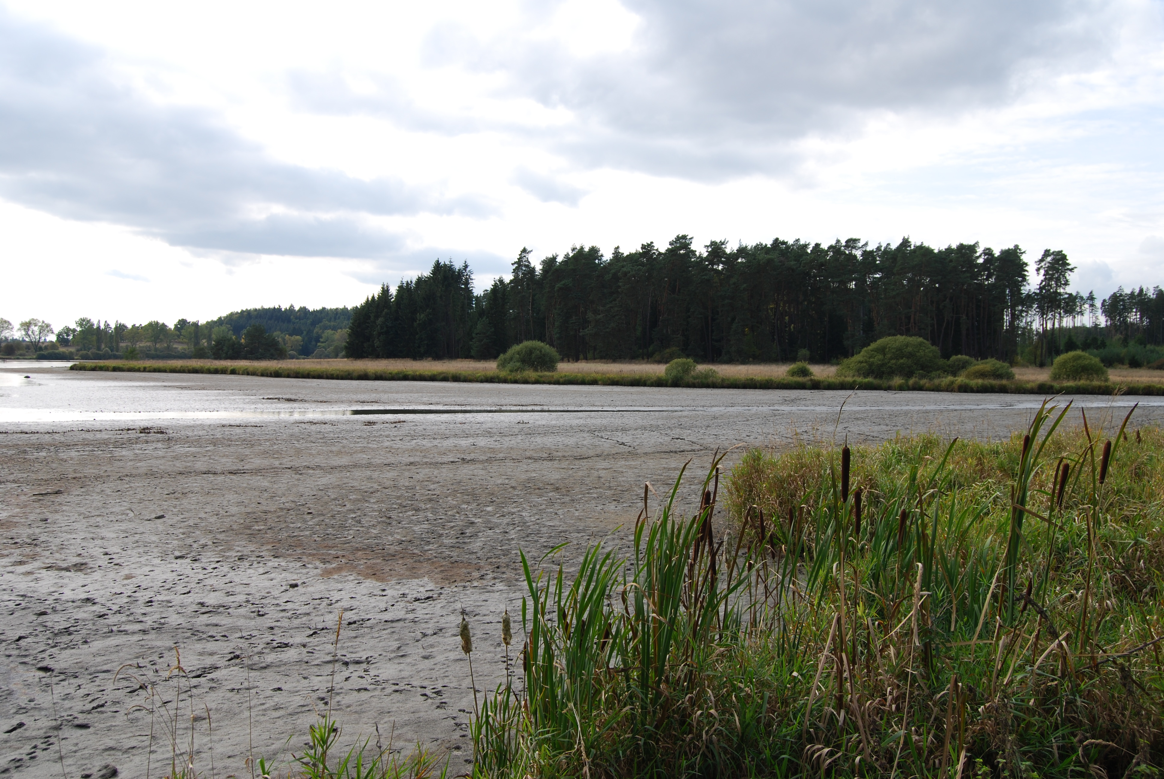 Velký kocelovický pond near Kocelovice village, Strakonice District, Czech Republic.